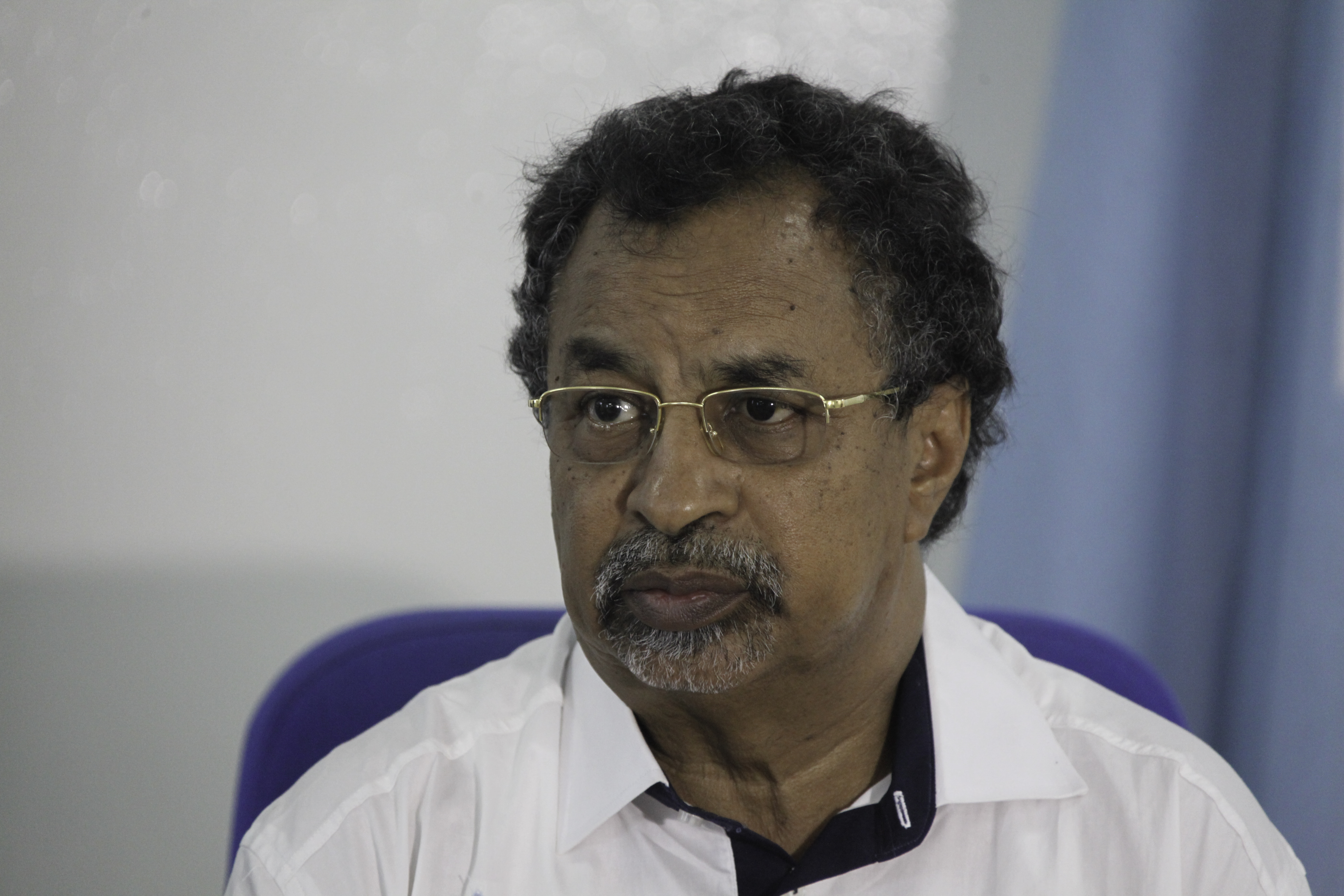 The African Union Special Representative for Somalia and Head of AMISOM, Ambassador Mahamat Saleh Annadif together with AMISOM Spokesperson Col. Ali Aden Houmed addressing the media in Mogadishu, 19th March 2014.